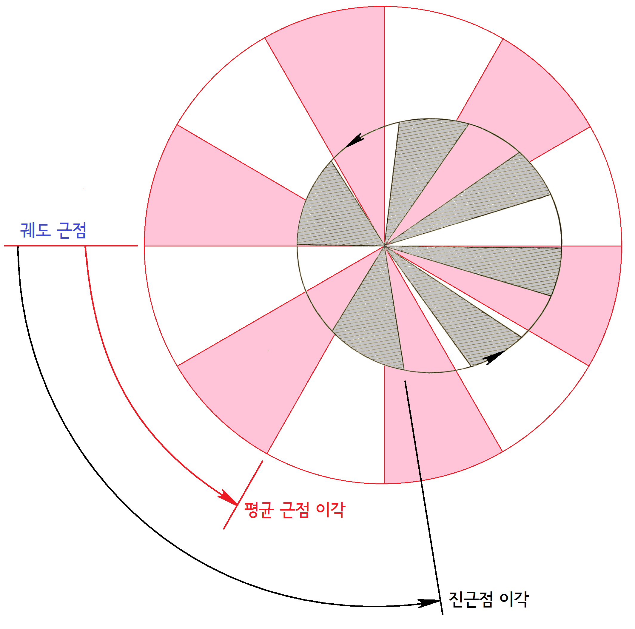 Korean version of file Mean anomaly diagram.png